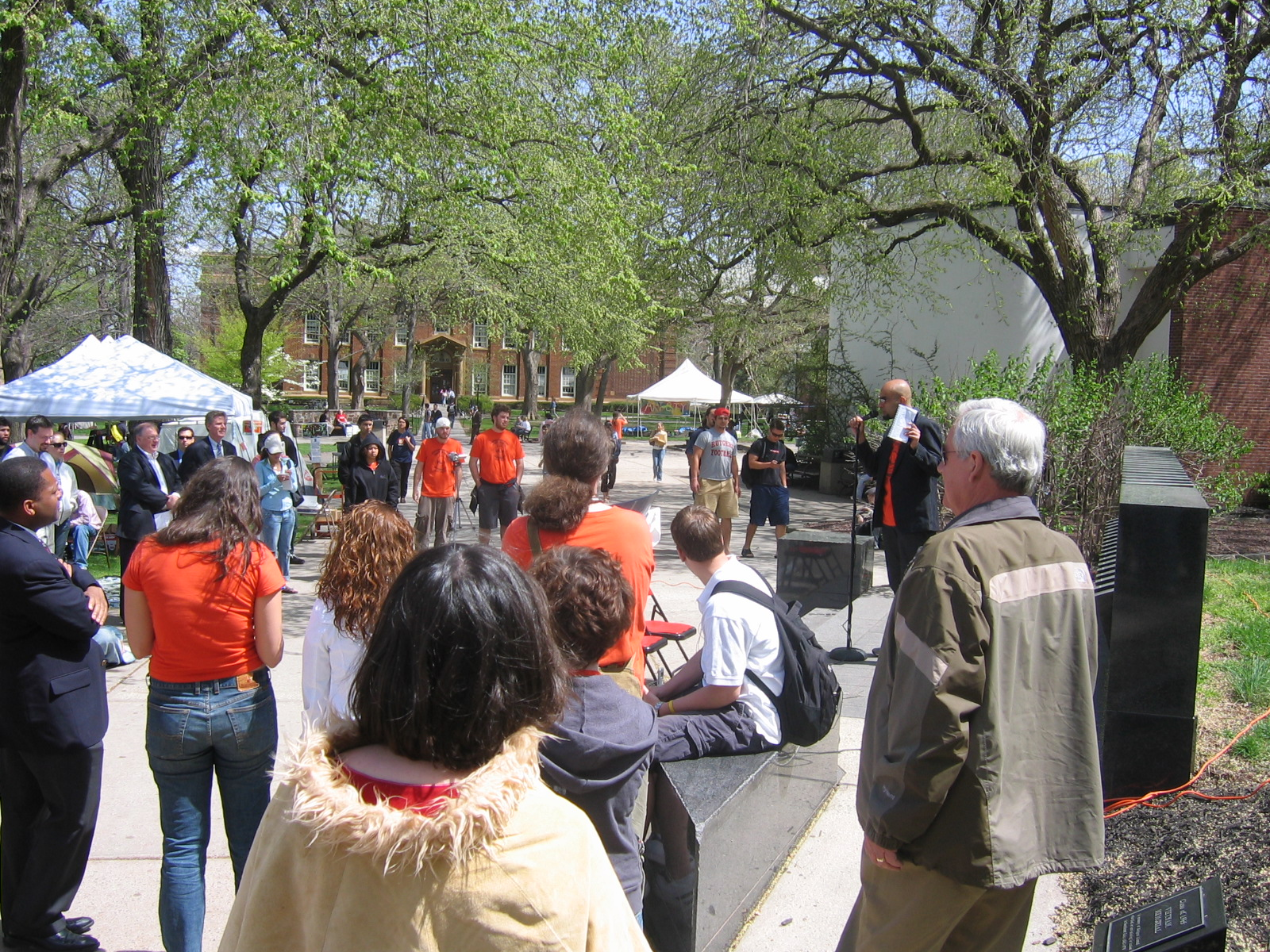 Speech being made at a Tent State University protest at Rutgers University, 2006. Photo taken by me. Released under GNU and whatever other licenses I have on my user page.